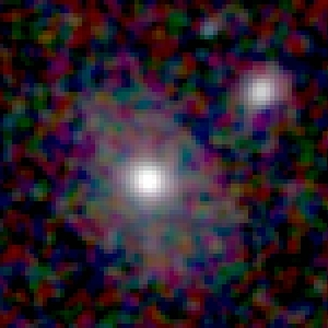 Galaxy NGC 37